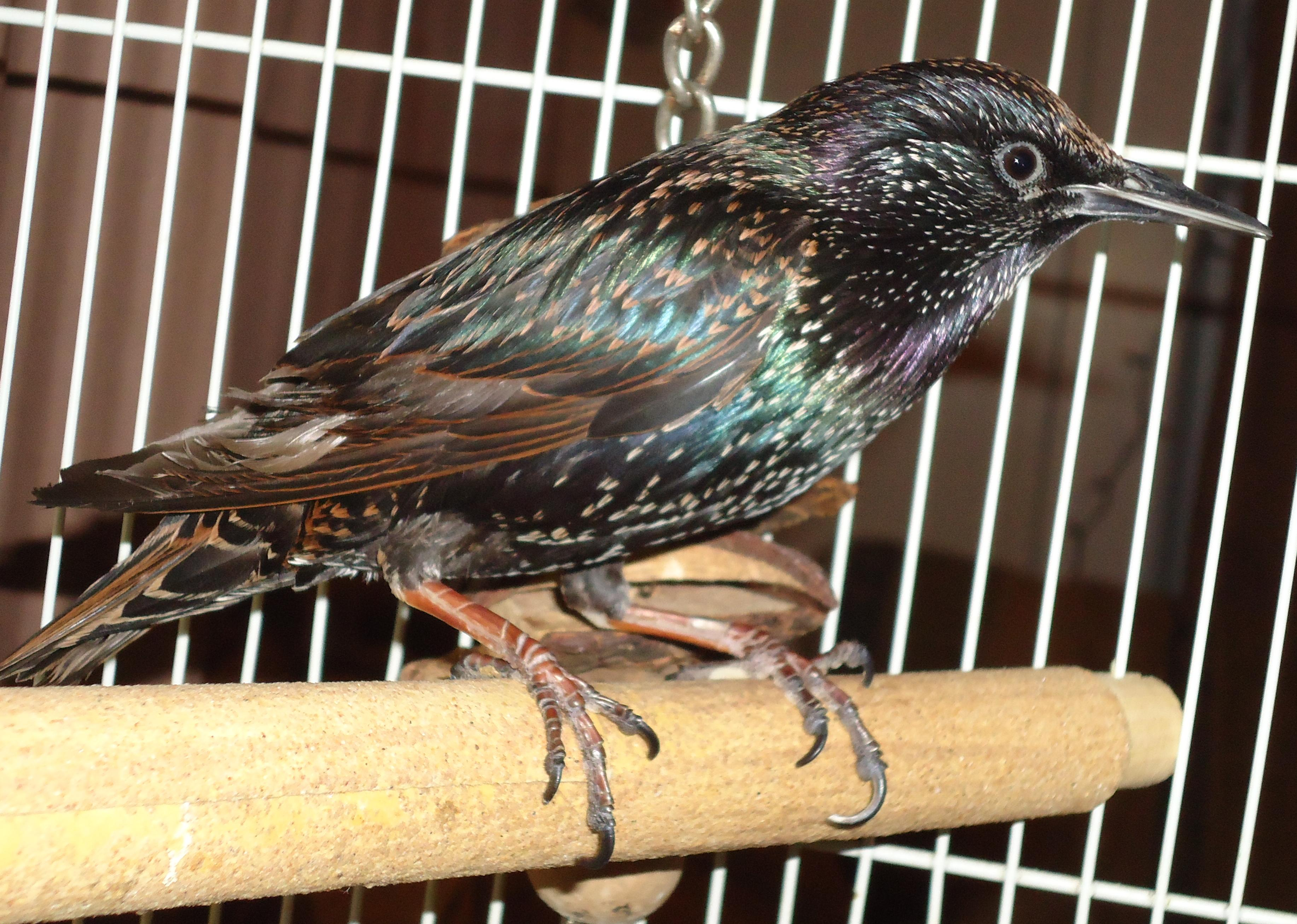 Two and a half year old rescued European Starling. Starlings are members of the Myna bird family. They mimic sounds and can learn to speak. This bird's name is Toolie. Toolie has a large vocabulary and speaks to his owner constantly.